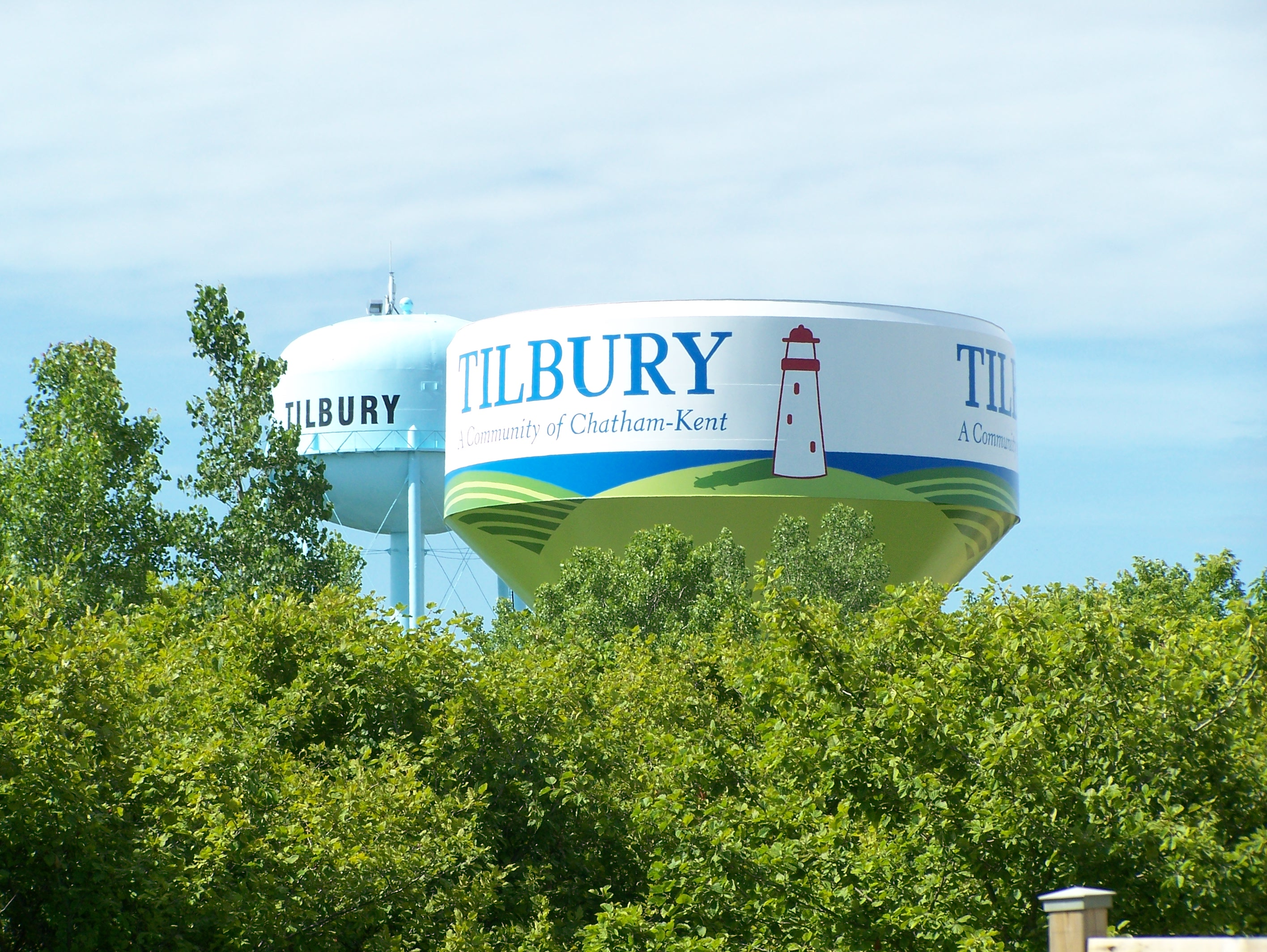 Tilbury Watertower